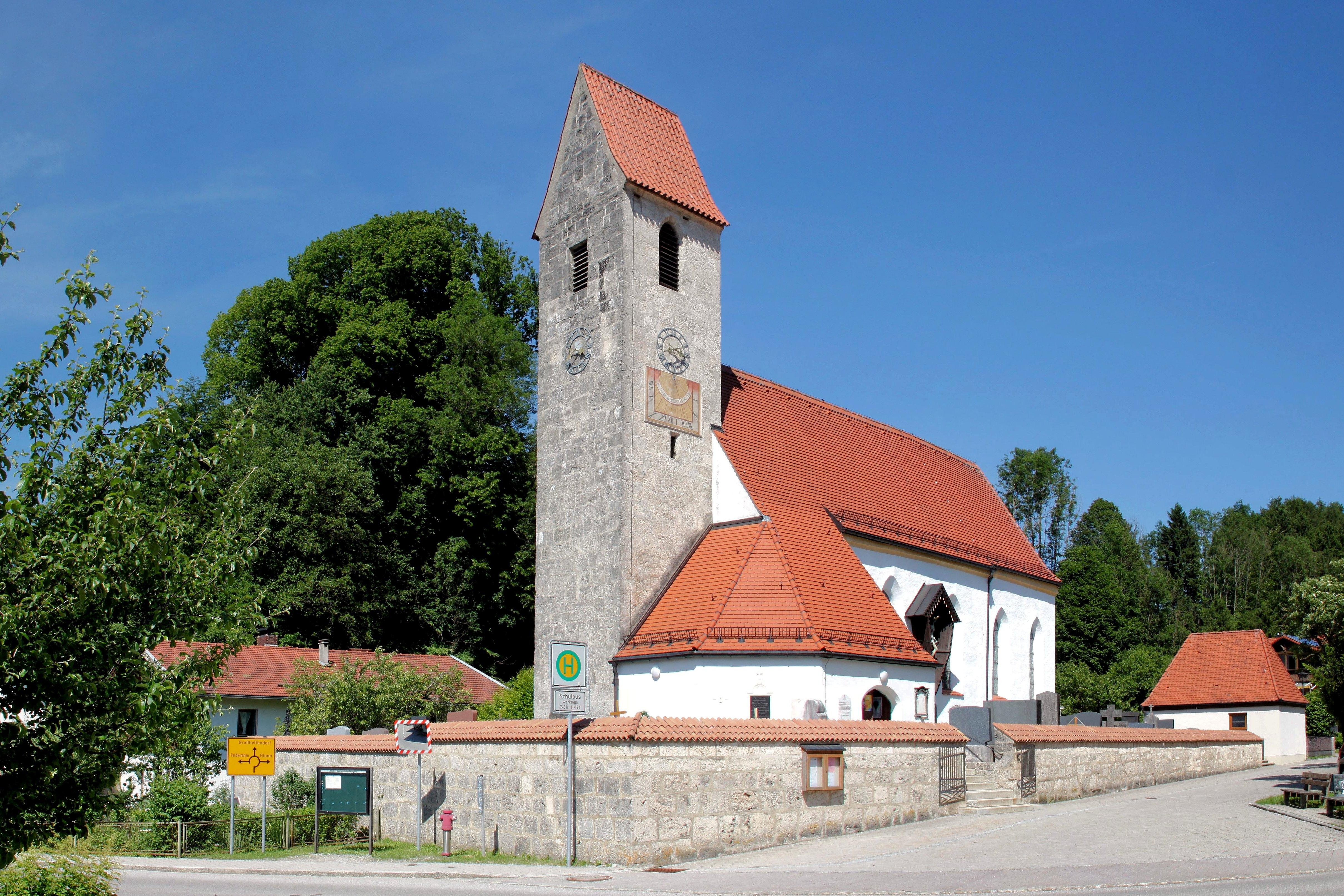 Unterlaus (Feldkirchen-Westerham): Roman Catholic curacy of Saint Vitus.